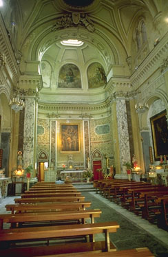 Church of Santi Cosma ed Damiano (Naples)